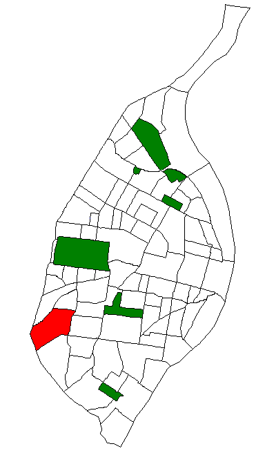 Map of St. Louis neighborhood #09